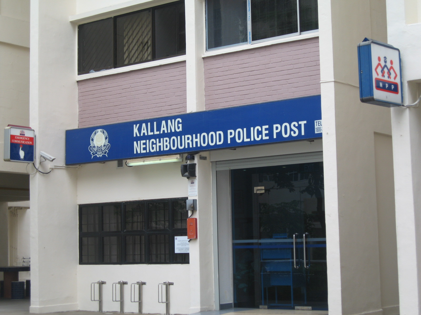 Kallang Neighbourhood Police Post.